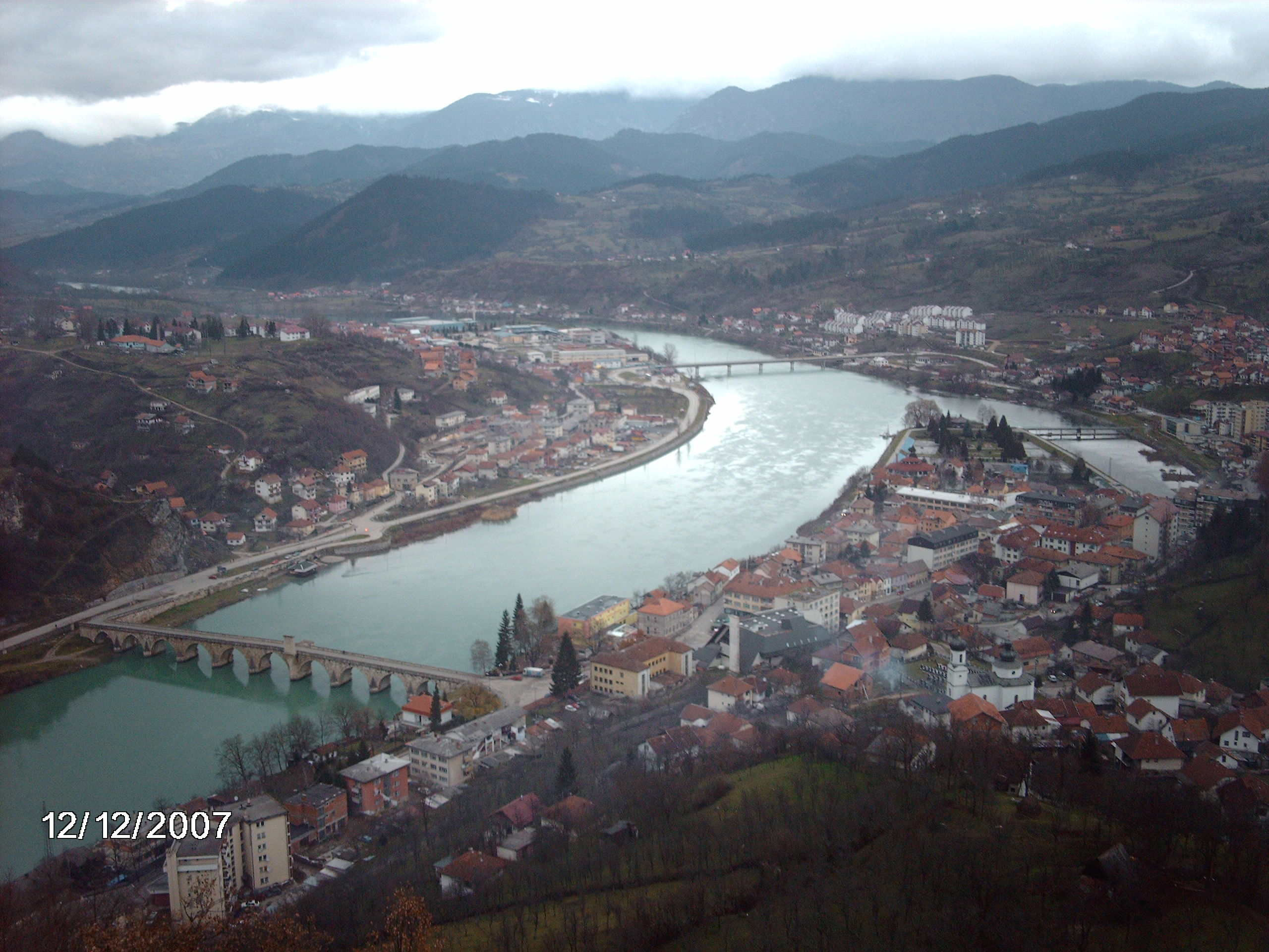 Picture of Visegrad,taken from hill Grad